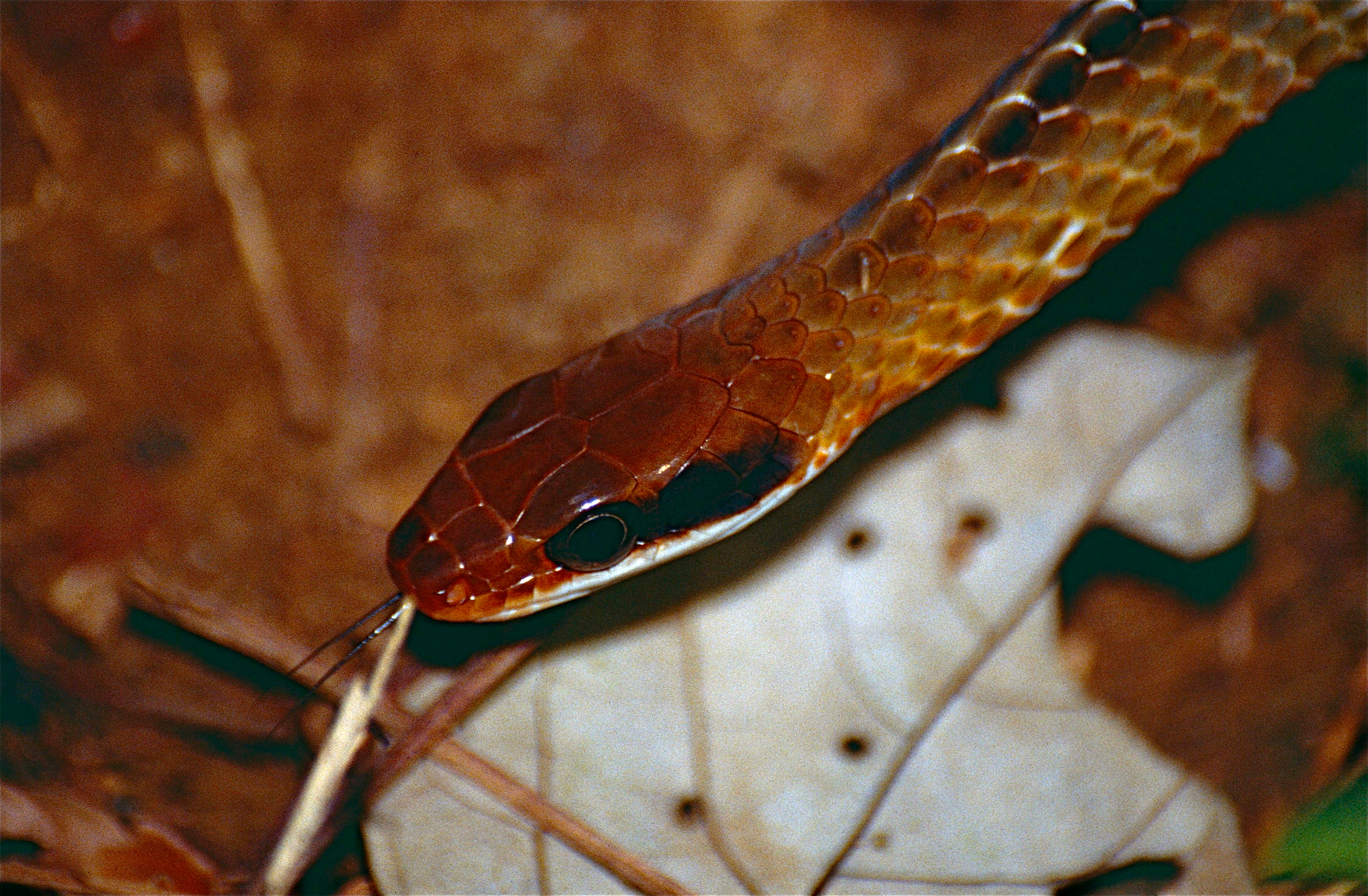 Réserve du Mont Grand Matoury, Guyane, FRANCE Scanned Slide from 1998